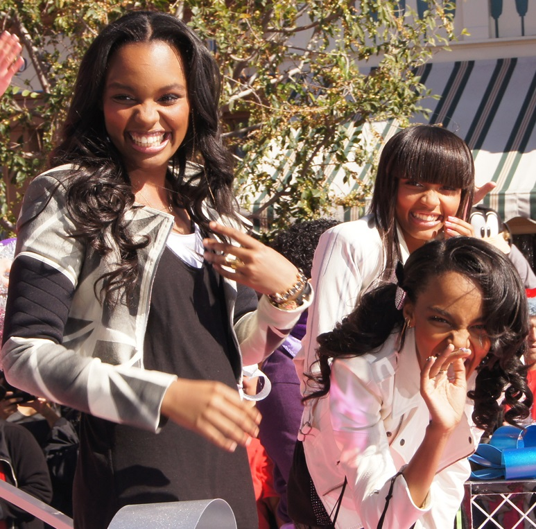 McClain (band) performing at Disney Parks Christmas Day Parade 2011